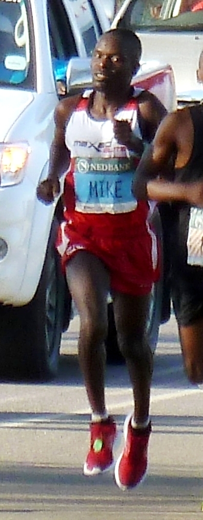 Mike Fokoroni in a leading trio at the 50 km mark in the 2013 Comrades marathon